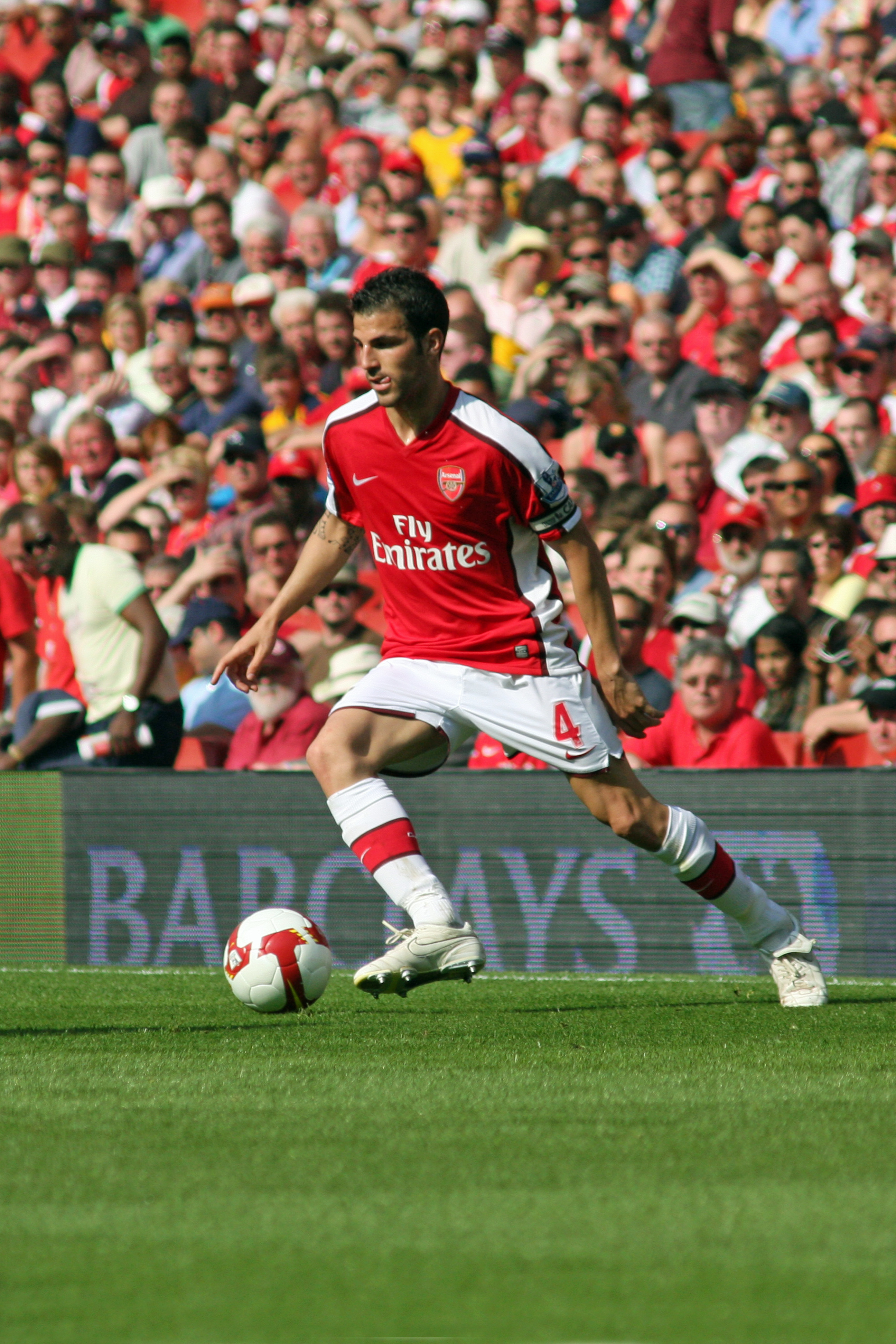 Cesc Fàbregas on the ball.